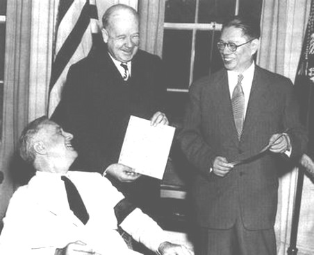 1943 TV Soong and President Roosevelt in White House. 1943年5月，罗斯福(坐者)与宋子文在白宫.